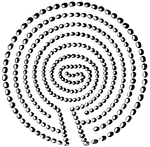 Labyrinth on island Wier (Южный Виргин). Picture by von Baer